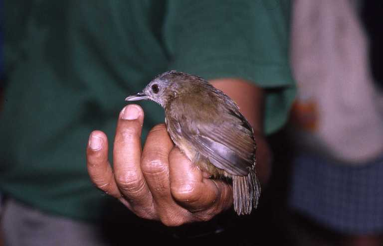 Malacocincla sepiaria (syn. Trichastoma sepiarium) at Taman Negara, Malaysia